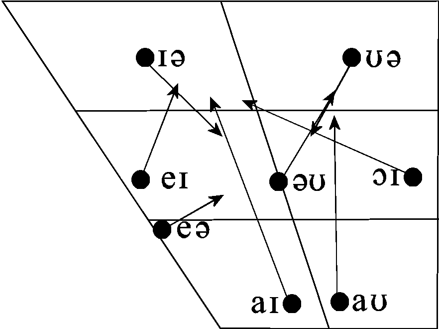 IPA vowel chart for Received Pronunciation diphthongs